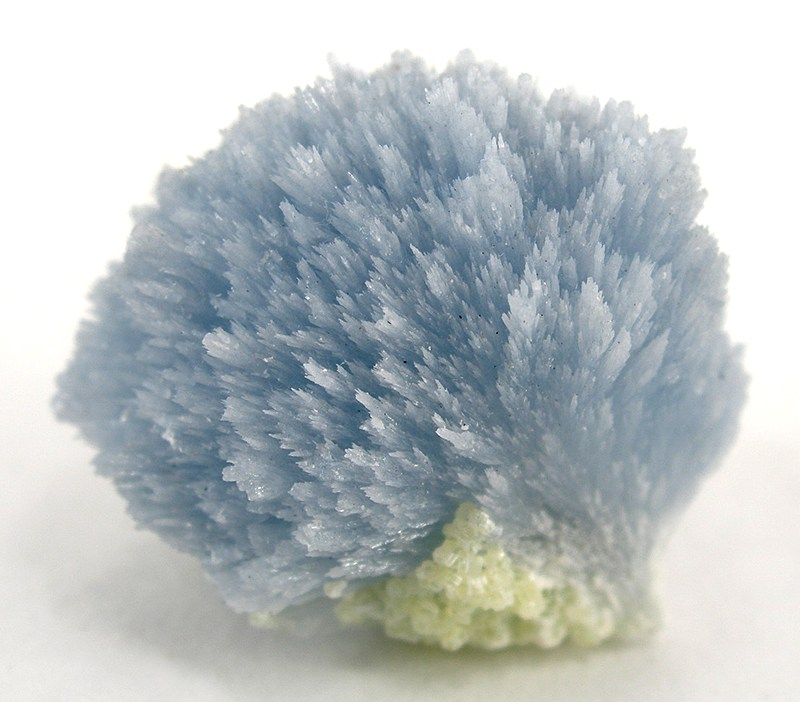 Baryte Locality: Wessels Mine (Wessel's Mine), Hotazel, Kalahari manganese fields, Northern Cape Province, South Africa (Locality at ) Size: thumbnail, 3.3 x 2.6 x 2.4 cm Barite A very cute hedgehog-shaped cluster of lustrous, acicular barite crystals. Most unusual! Complete all around.